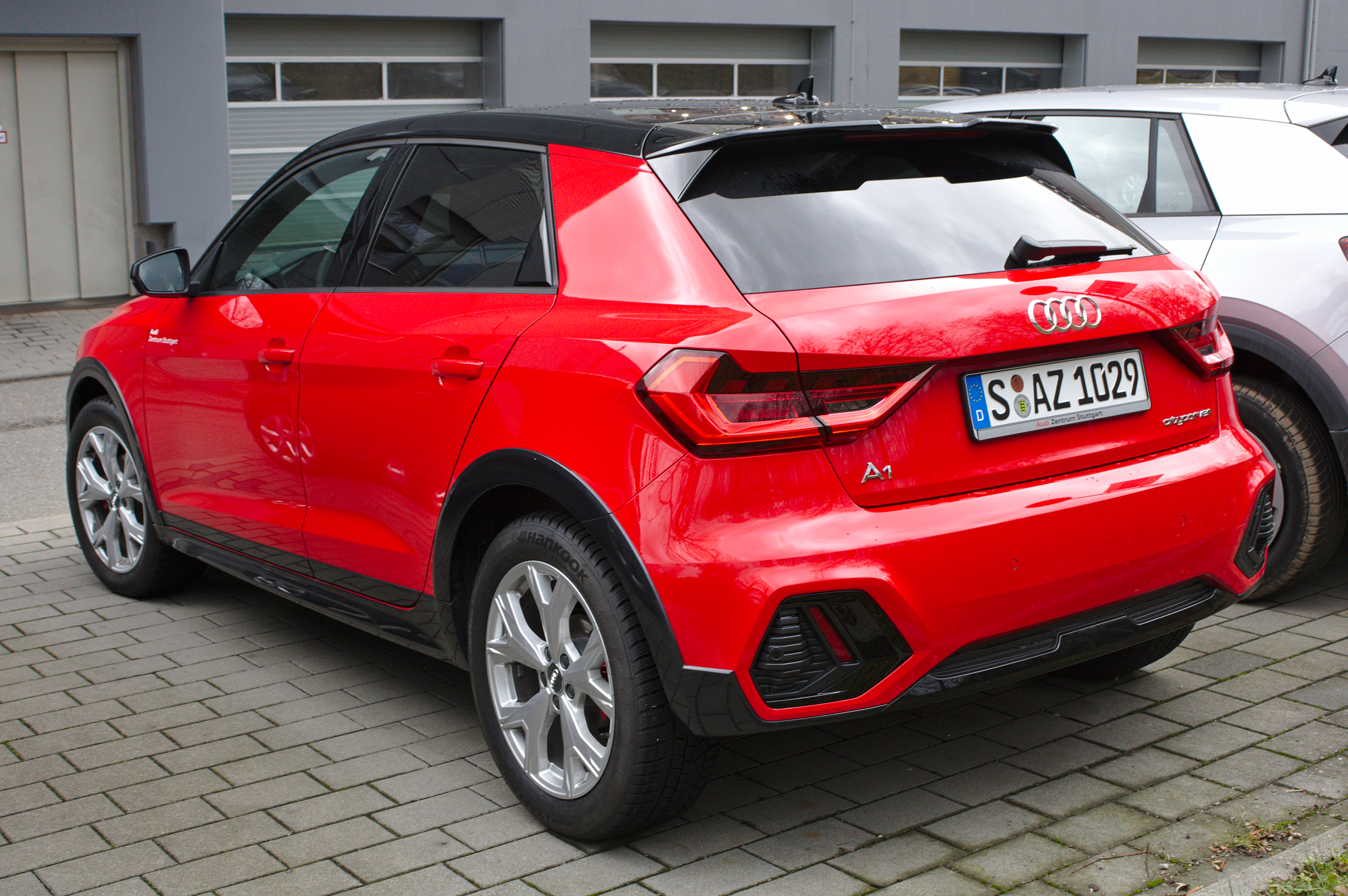 Audi_A1_citycarver in Stuttgart-Vaihingen